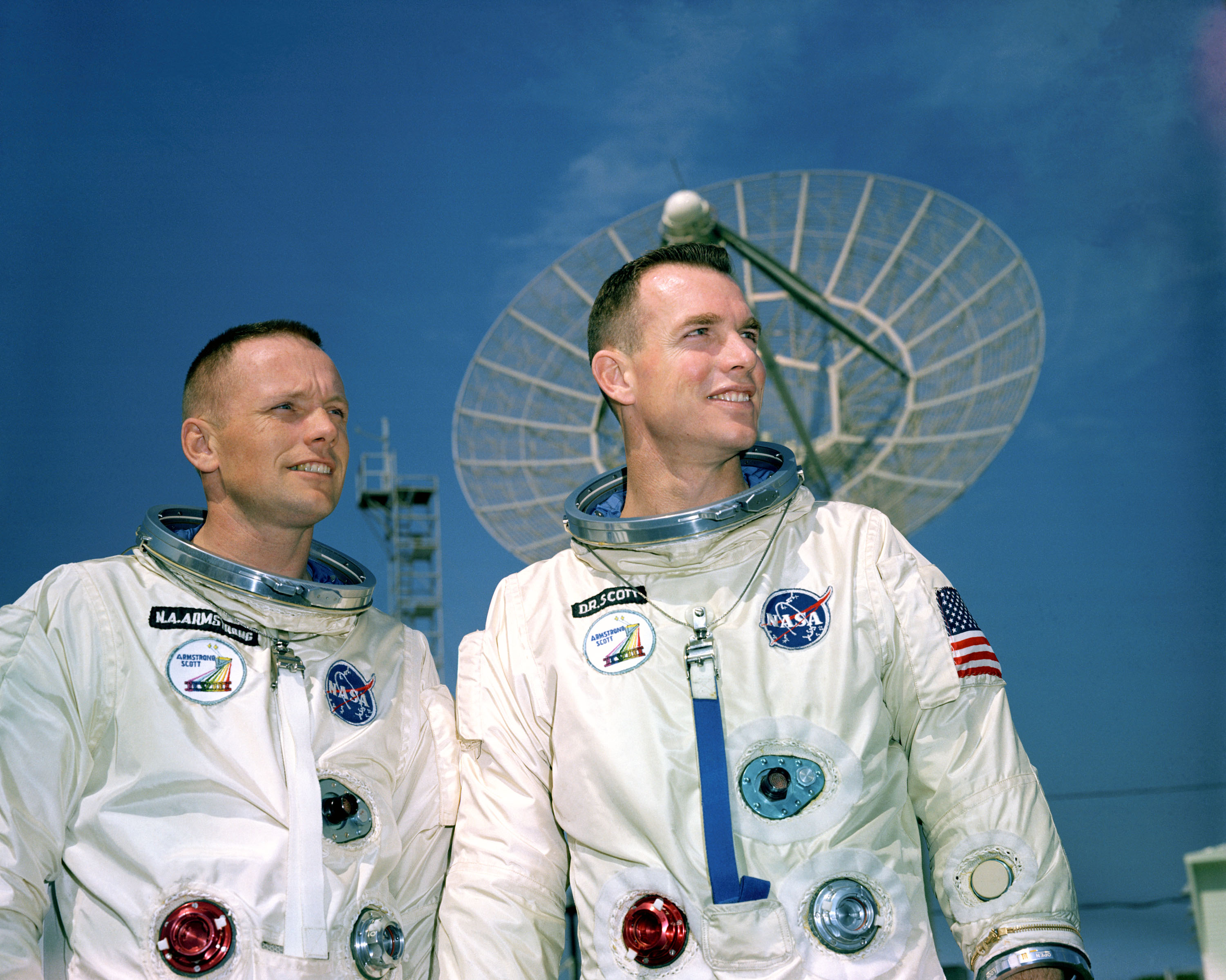 S66-27513 (11 March 1966) --- Astronauts Neil A. Armstrong (left), command pilot, and David R. Scott, pilot, the Gemini-8 prime crew, during a photo session outside the Kennedy Space Center (KSC) Mission Control Center. They are standing in front of a radar dish.